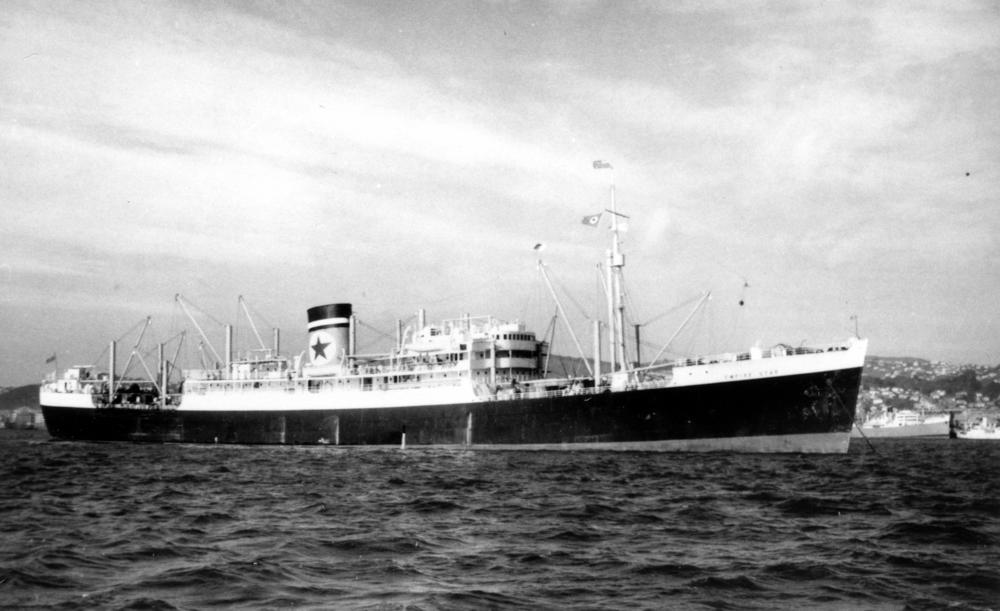 MV Empire Star, a 11,861 GRT British refrigerated cargo liner built in 1946 and scrapped in 1971